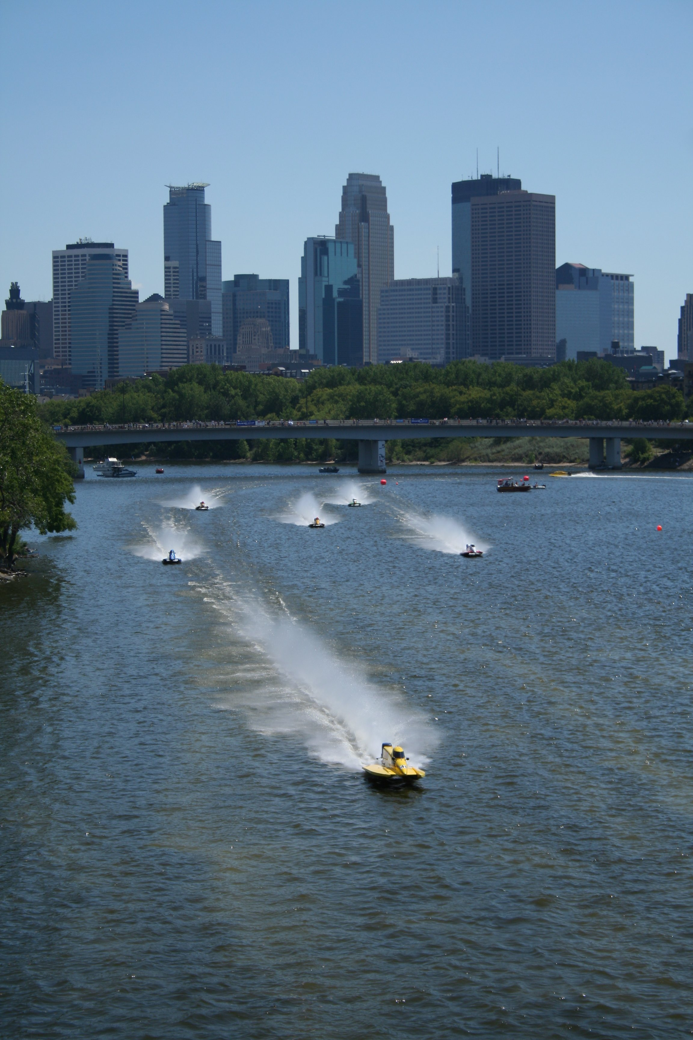 Winding down the race. 2006 F1 ChampBoat Grand Prix racing series, on the Mississippi River in Minneapolis. See F1 Powerboat Racing